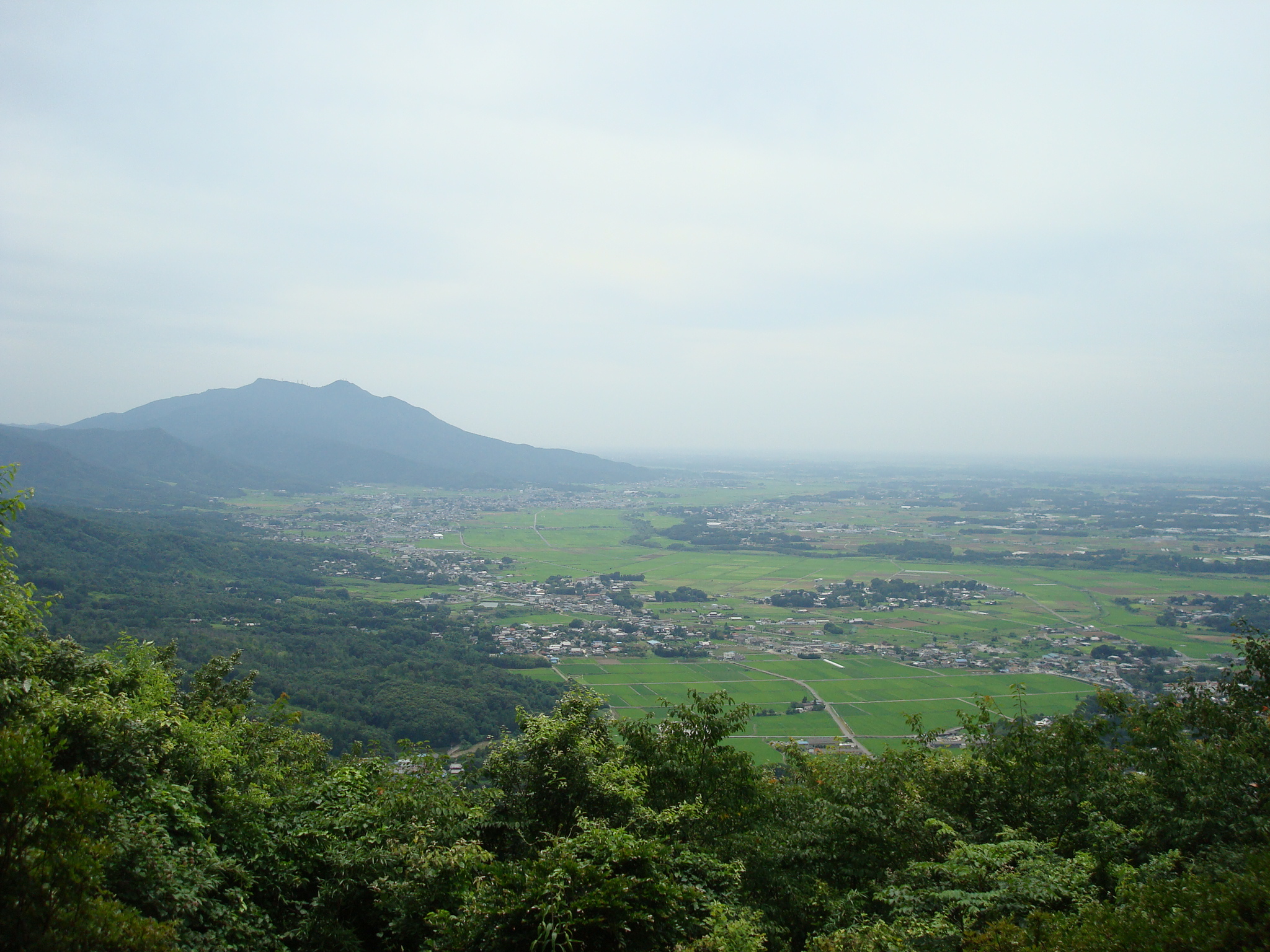 View from Mount Amabiki. Mount Tsukuba on the left.